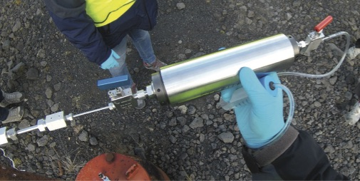 The PUSH50 device was developed to maintain deep-sea samples at high pressure so the organisms in a sample are not subjected to decompression.